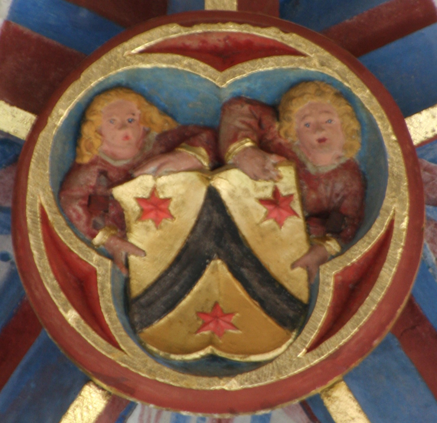 Keystone with the coat of arms of the builder Aberlin Jörg in the Alexanderkirche in Marbach am Neckar